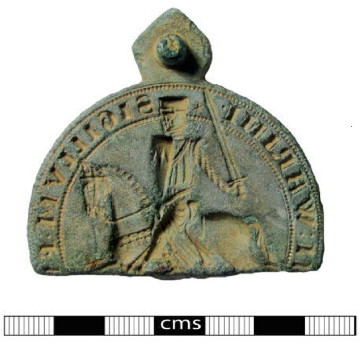 Fragmentary metal seal-matrix exhibiting an equestrian figure of Fulk Fitz-Warin, probably Fulk III (died c. 1258), found in Wiltshire about 5 miles from his estates at Lambourn, described as a find of national importance in the report for the Portable Antiquities Scheme, identifying code BERK-FDCFD2.